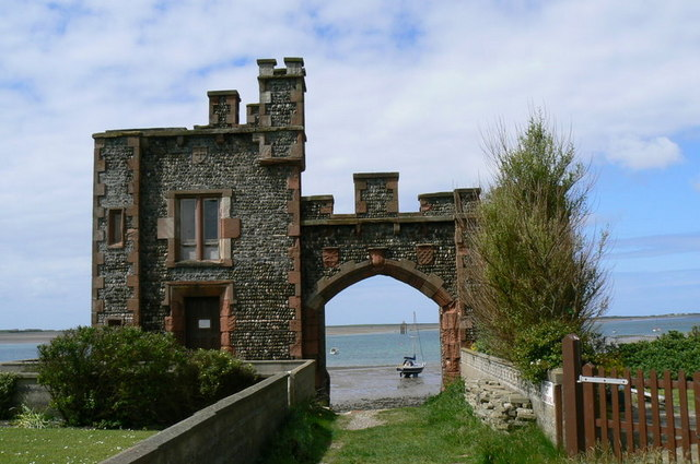 The Old Customs House Roa Island The Customs House no longer in usage but signs of some repair or renovation were in progress when I visited